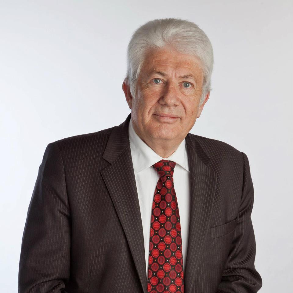 Picture of Christian Franqueville